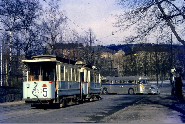 Oslo Sporveier Class SS trailer 485 in Kierschows gate. Behind Sporveisbuss in Uelands gate.